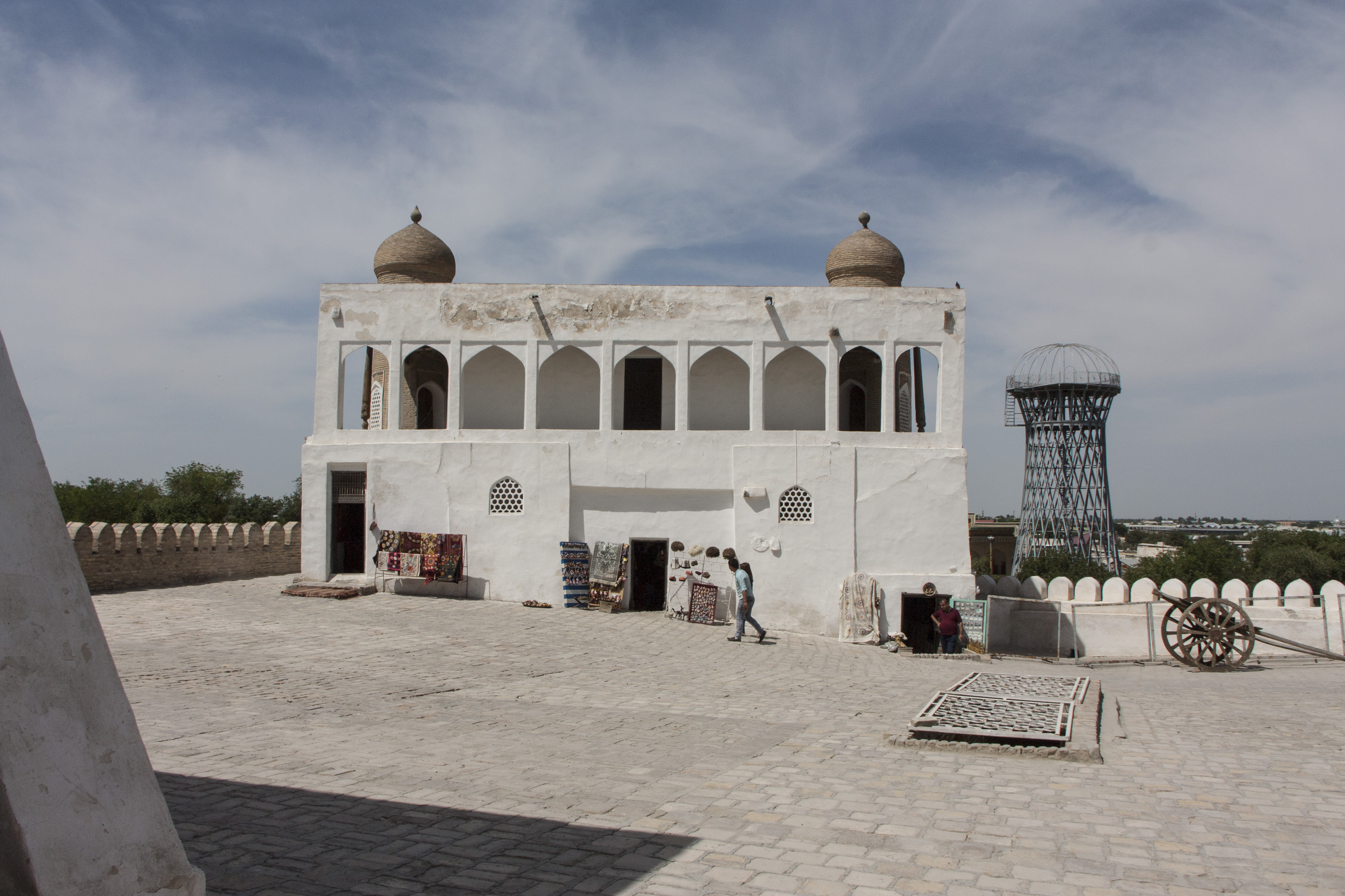 Ark Fortress in Bukhara